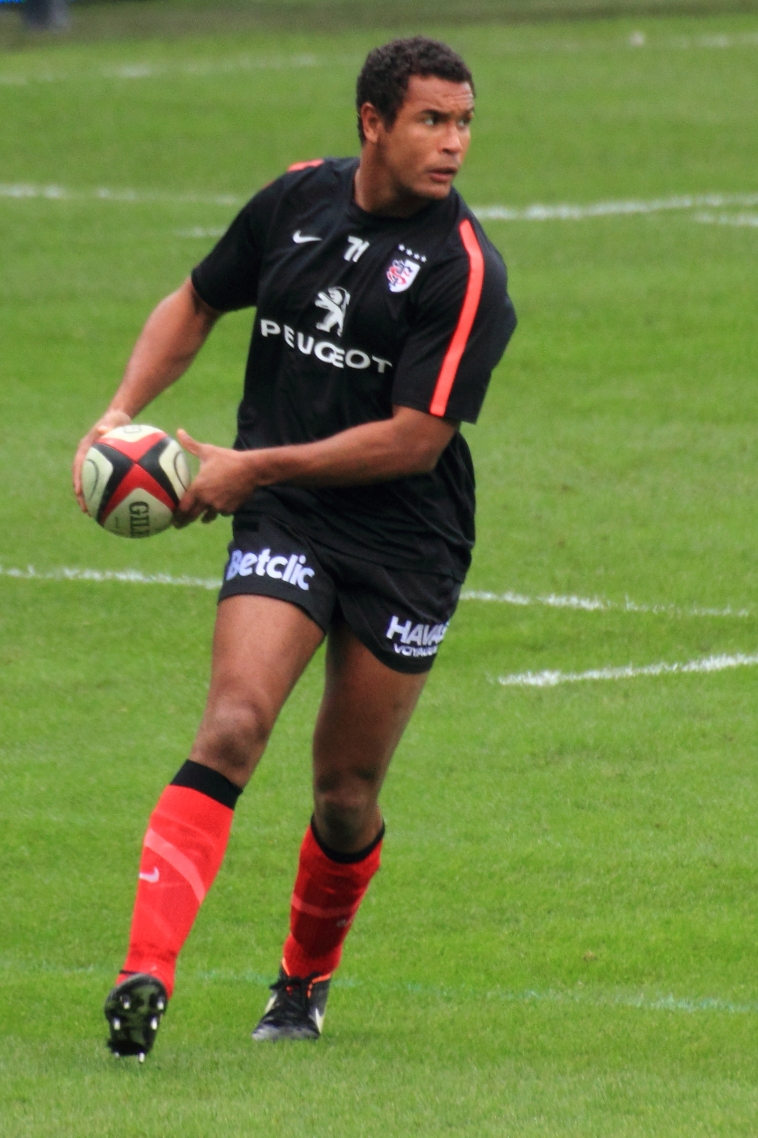 Top 14 — 3 December 2011, Stadium. Match between: Stade toulousain — RC Toulon